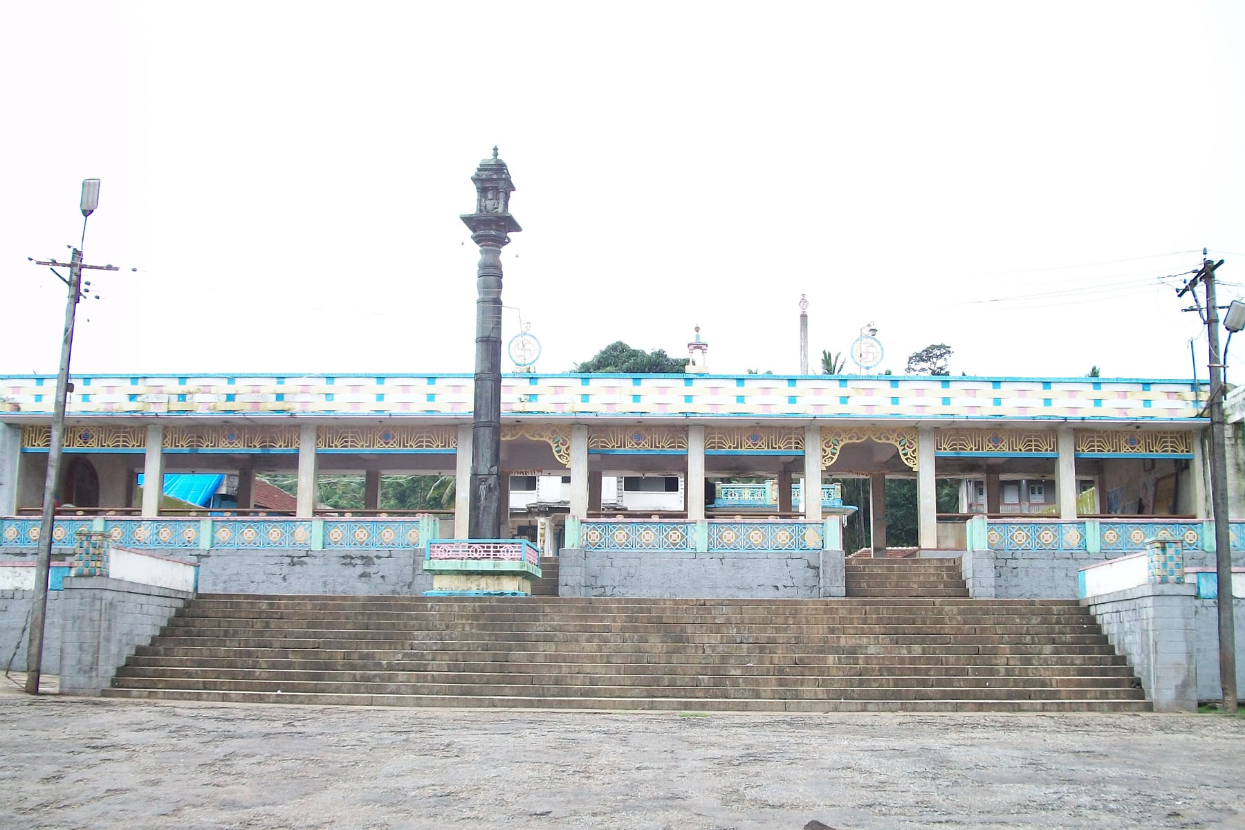 Beautiful temple of South India